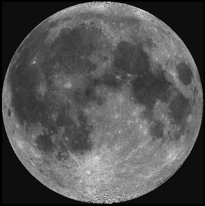 Ana e afërt e Hënës